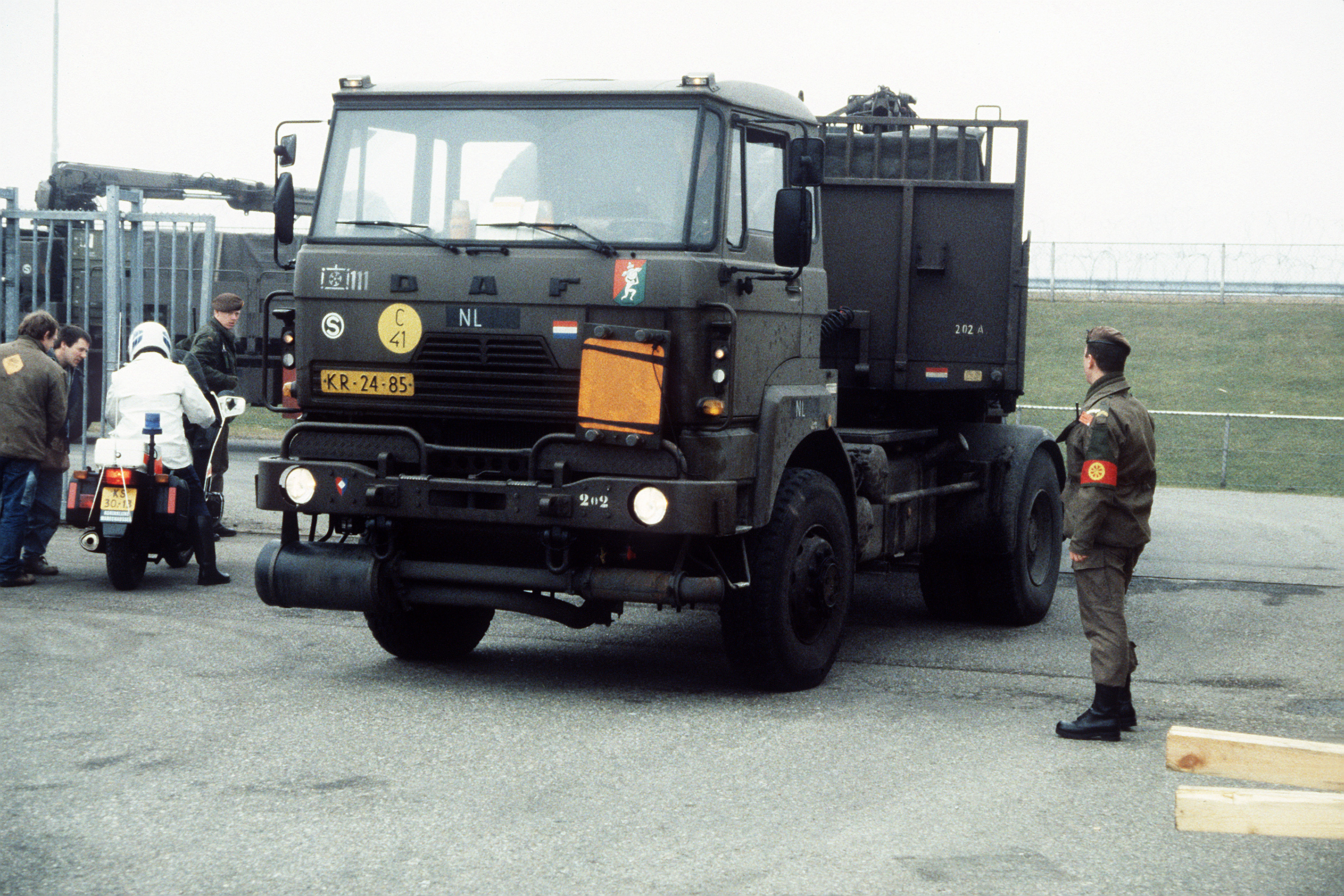 Members of the Dutch army's 812th Transportation Group position a DAF YA 4-ton truck on a pier at Eemshaven Port. The truck is carrying ordnance for redeployment to the United States in the aftermath of Operation Desert Storm.